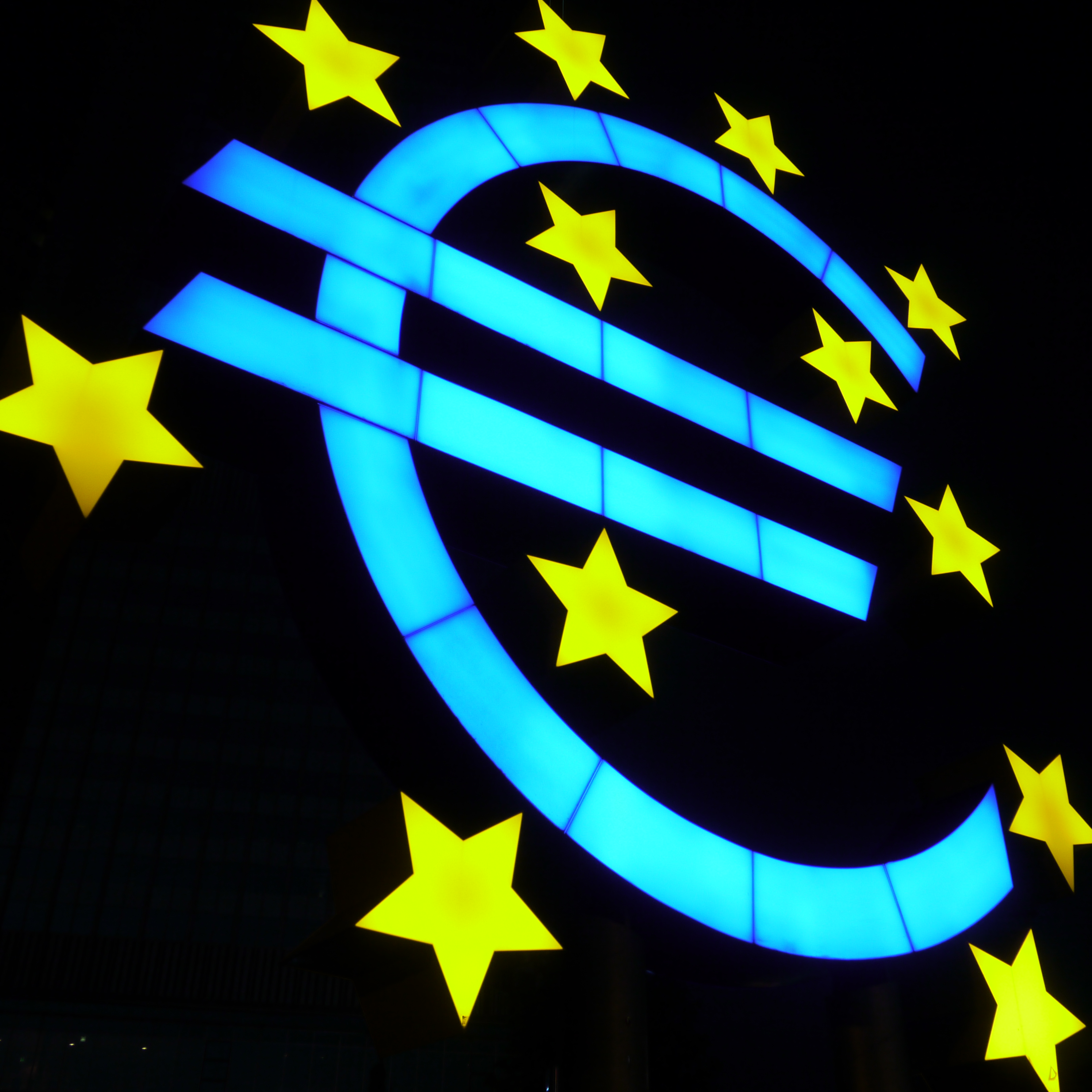 Night view of the euro monument (euro symbol) by the European Central Bank, Willy-Brandt-Platz, Frankfurt am Main, Germany.